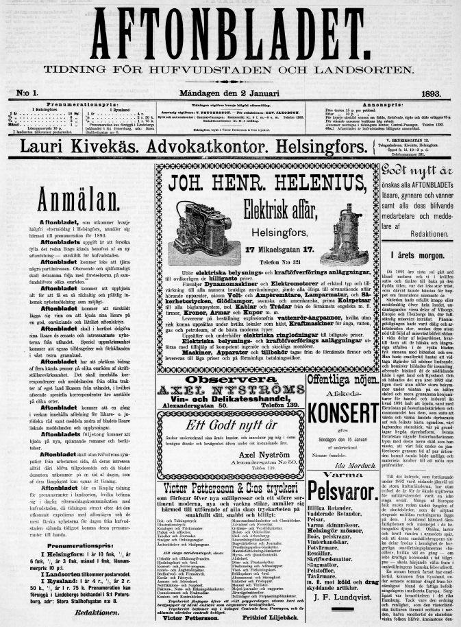 First page of newspaper Aftonbladet's first proper issue.